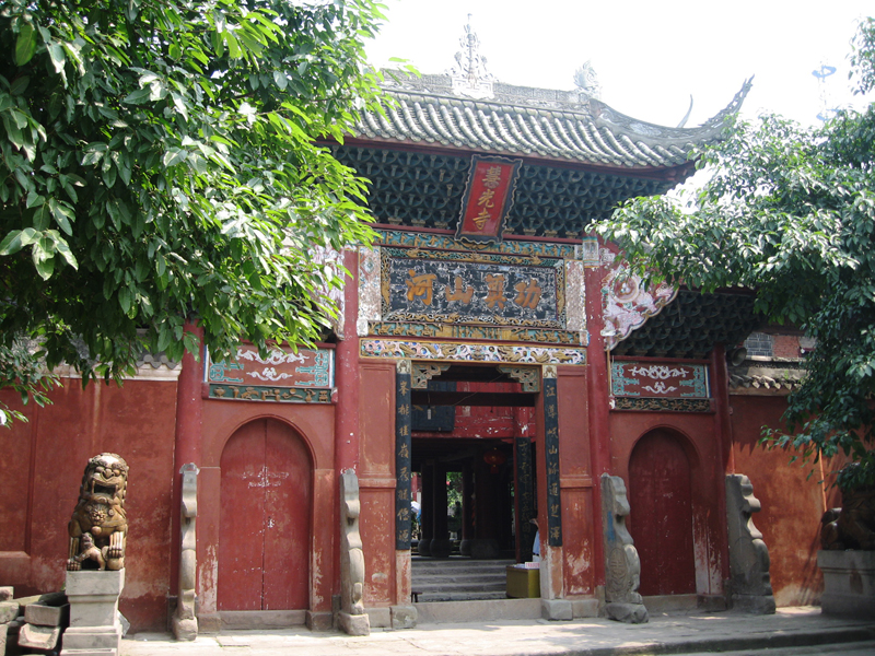 Yuwanggong in Lizhuang Township, Sichuan, China